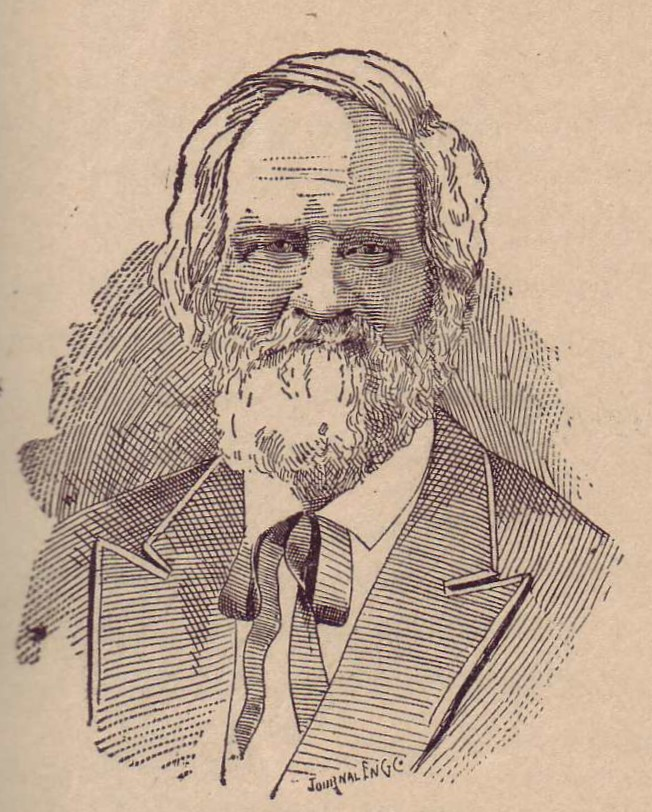 Portrait of Jonathan Norcross scanned from an 1891 book.